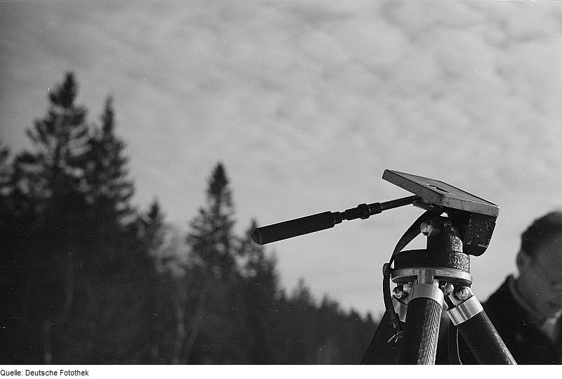 Original image description from the Deutsche Fotothek Stativ